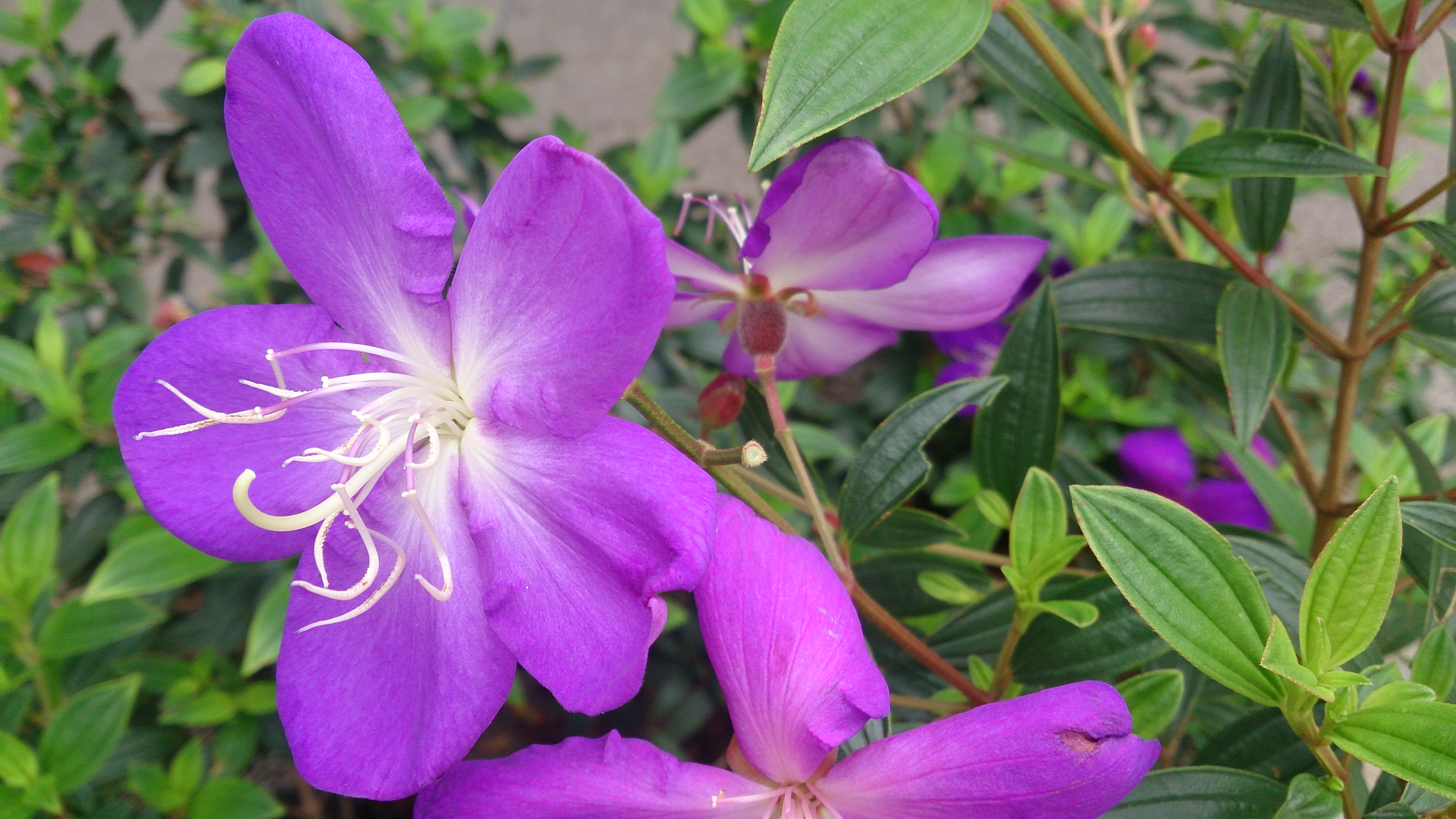 Tibouchina granulosa. Common name: Purple Glory Tree. This plant looks like the Singapore Rhododendron (Melastoma malabathricum), but it's not.